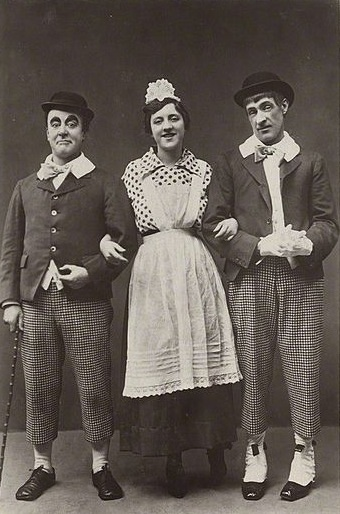 The stars of the 1916 revue The Bing Boys are Here, from left to right; George Robey, Violet Loraine and Alfred Lester.